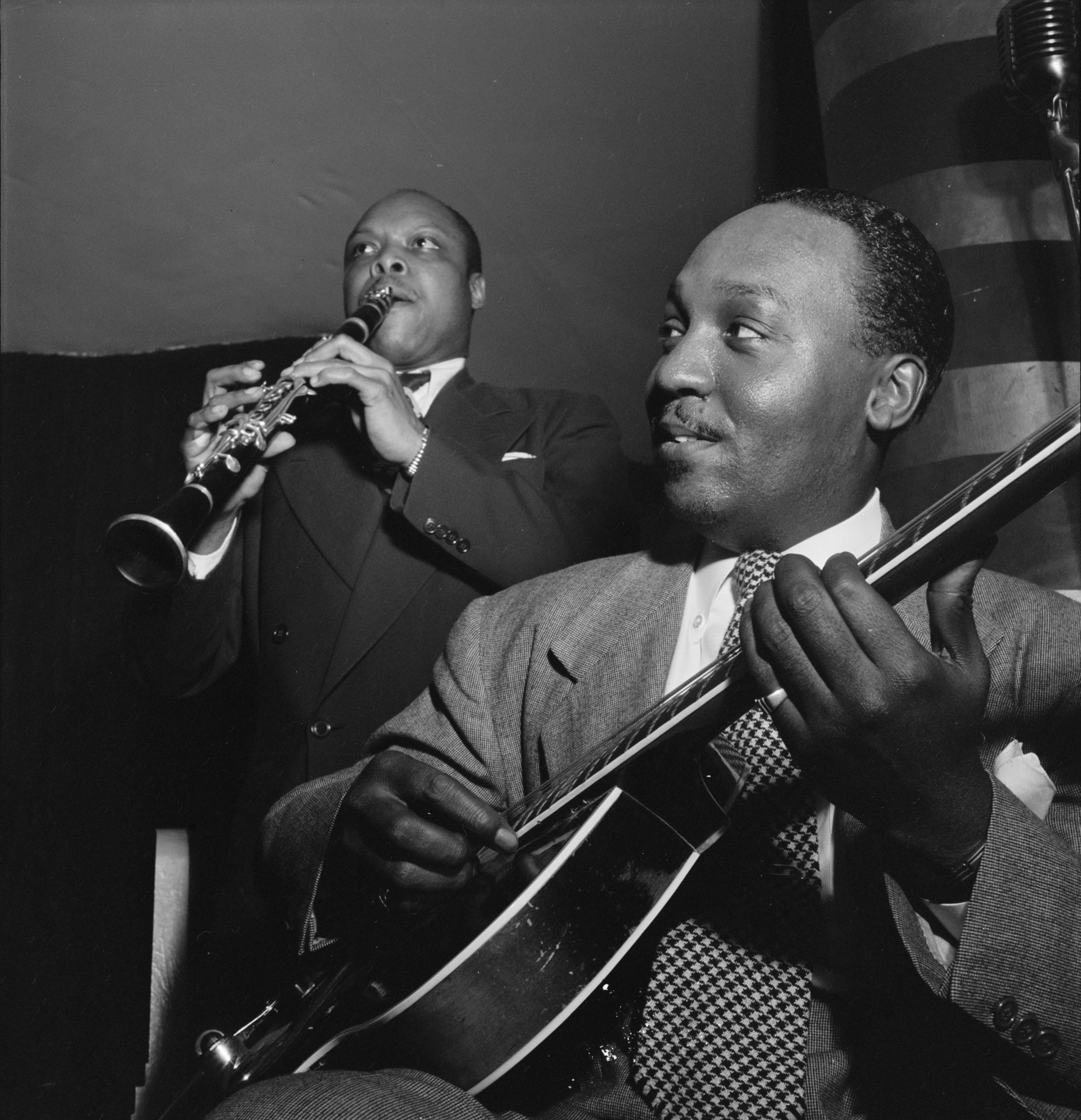 Al Casey and Eddie Barefield, Cafe Society, New York, between 1946 and 1948